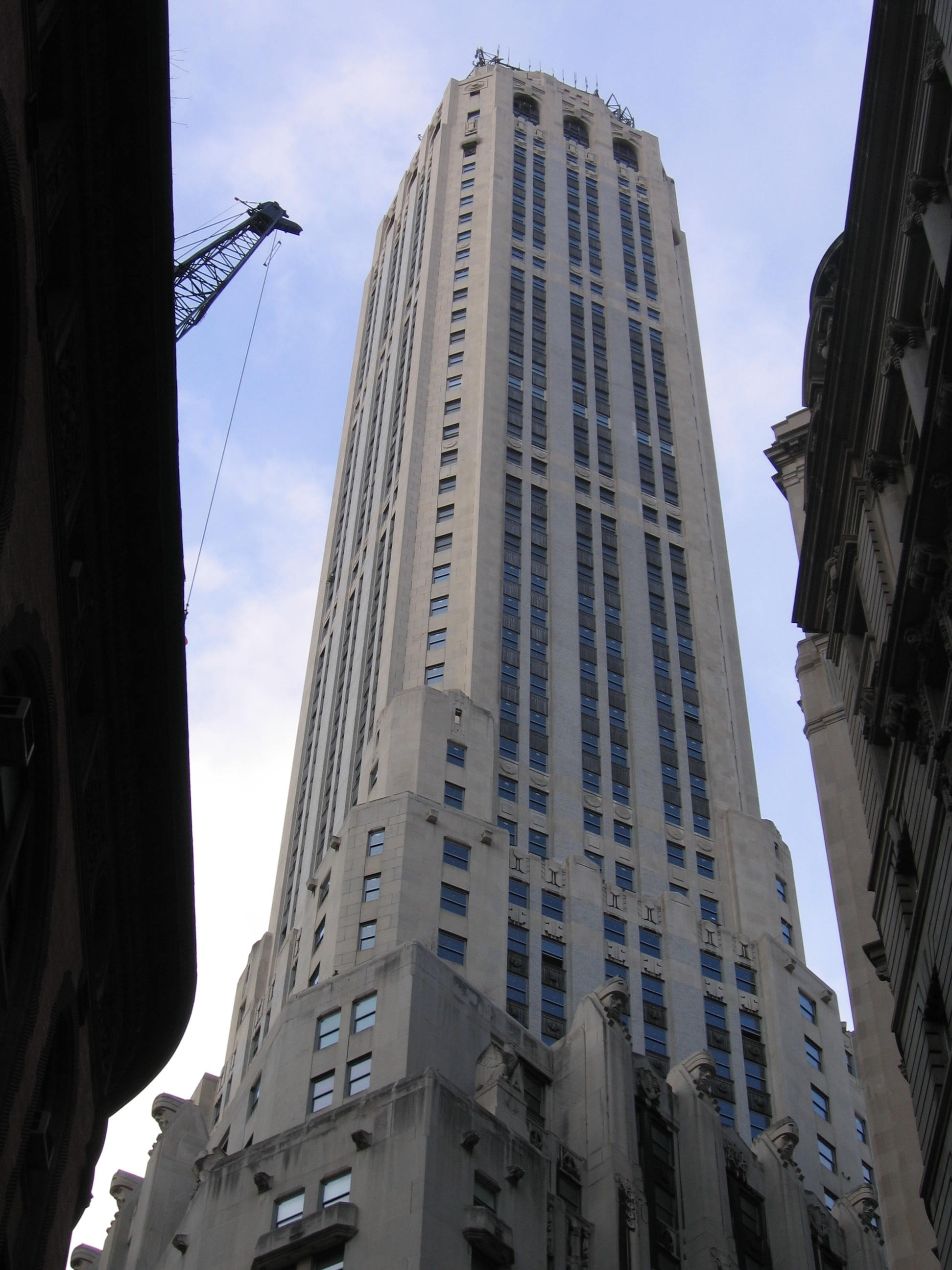 I am the author. City Bank - Farmers Trust Building, 1930-31. Community Board 1. NYLPC designation 1996.